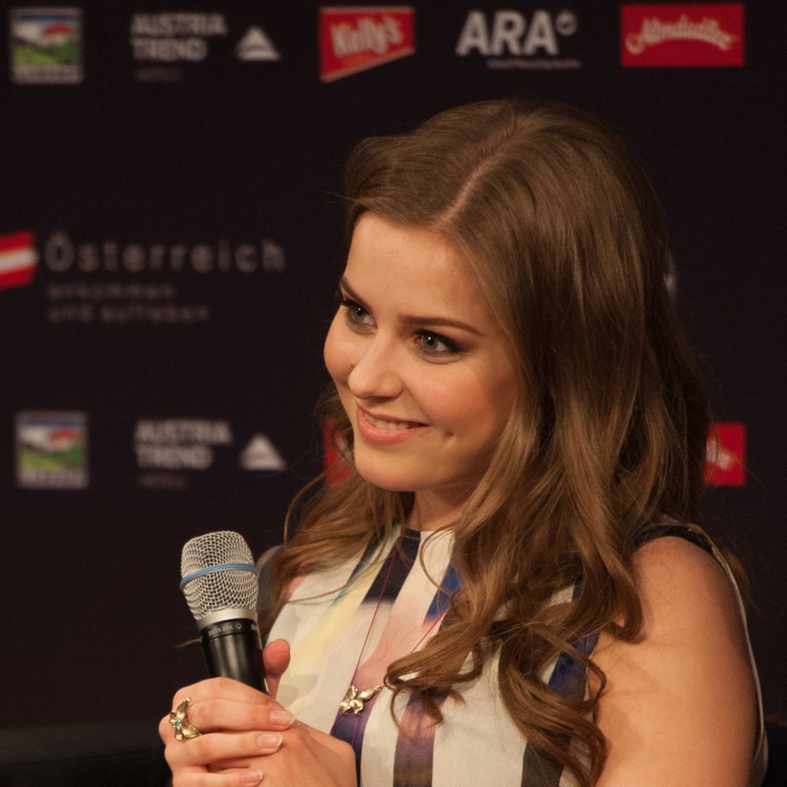 Eurovision Song Contest Vienna 2015: Maria Olafs